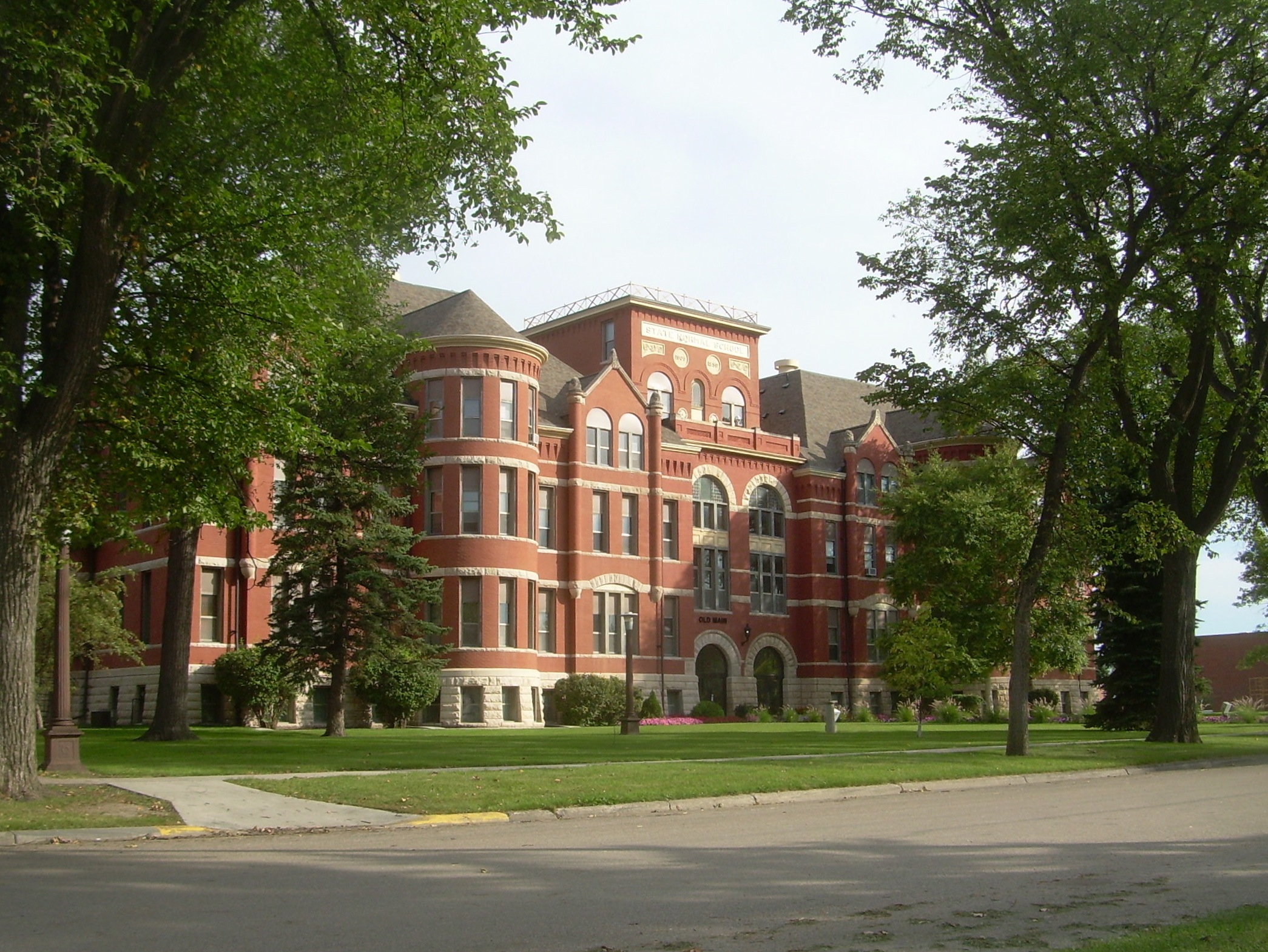 Old Main on the campus of Mayville State University, Mayville North Dakota.